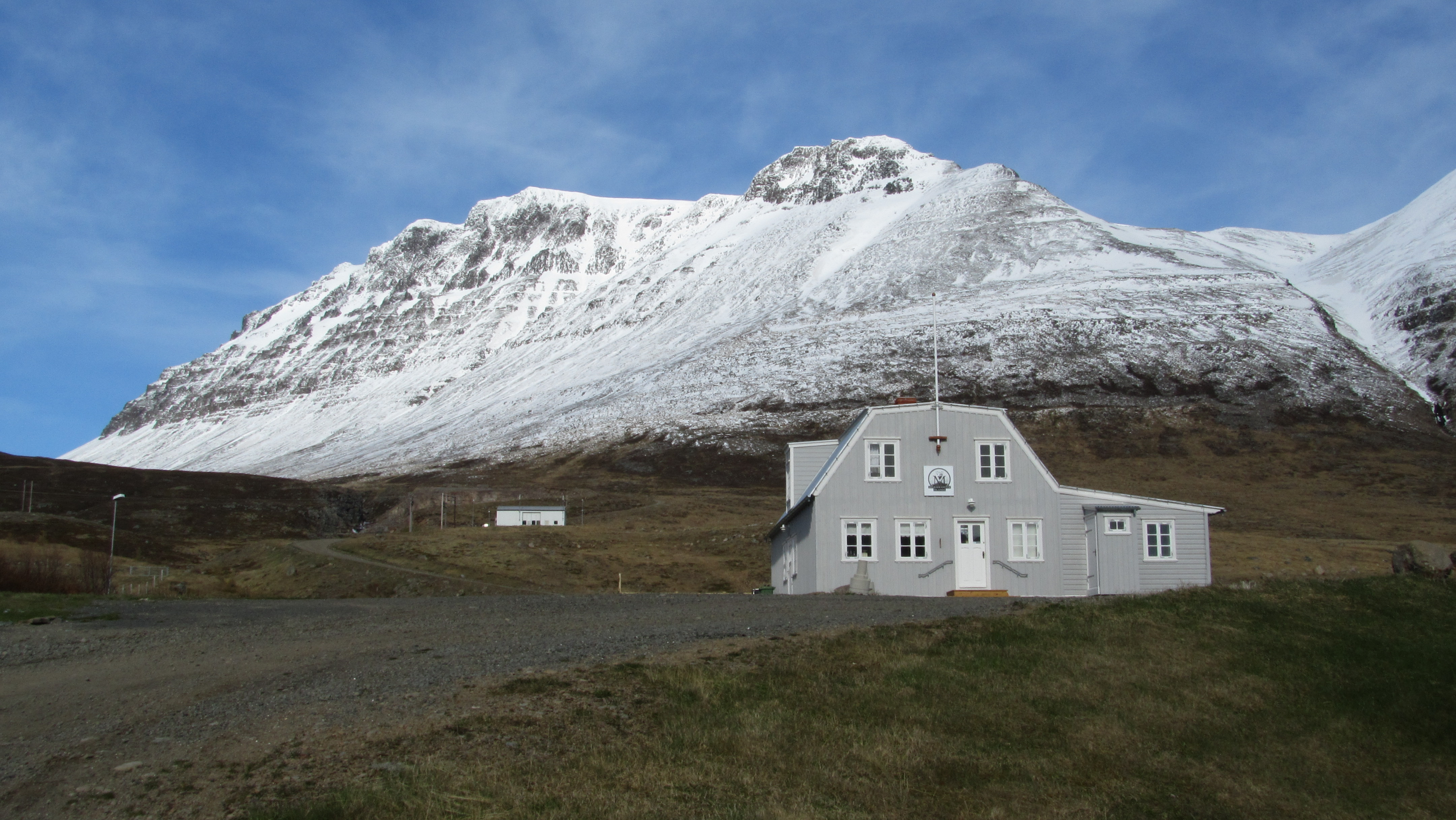 The building of the Arctic Fox Center in Súðavík on a nice but cold day in May.